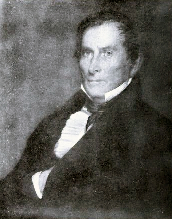 Image of George Poindexter taken from the US Congress Biographical Directory